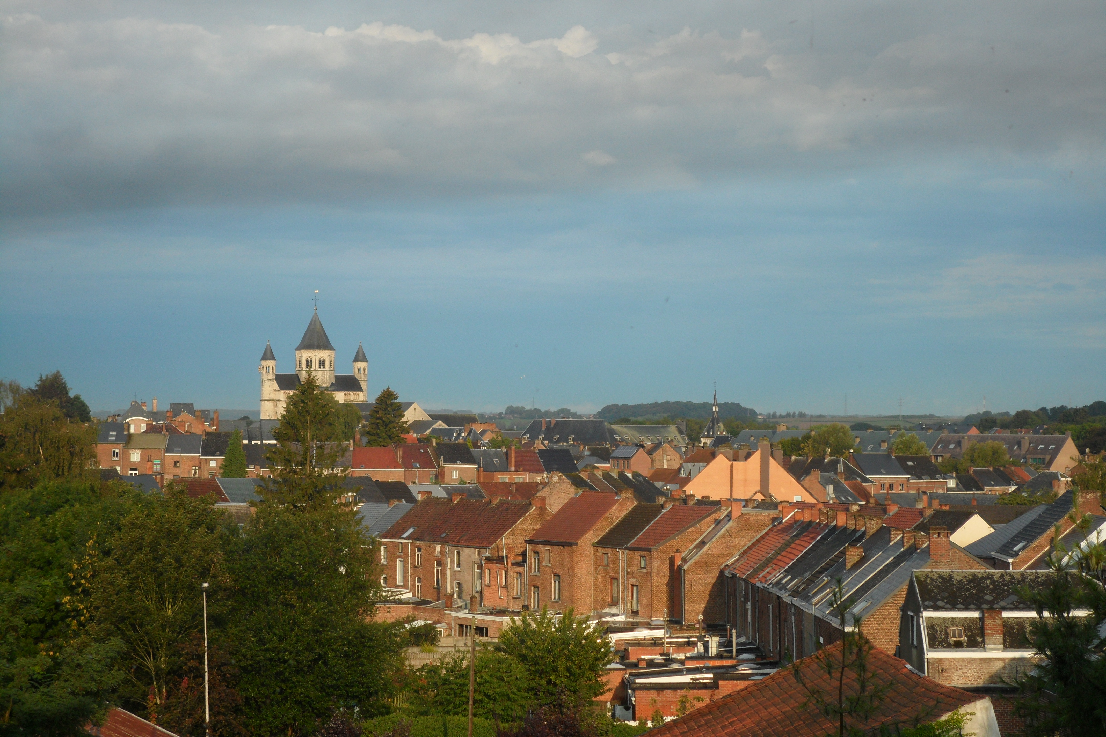 Panoramic view of the city of Nivelles, Belgium